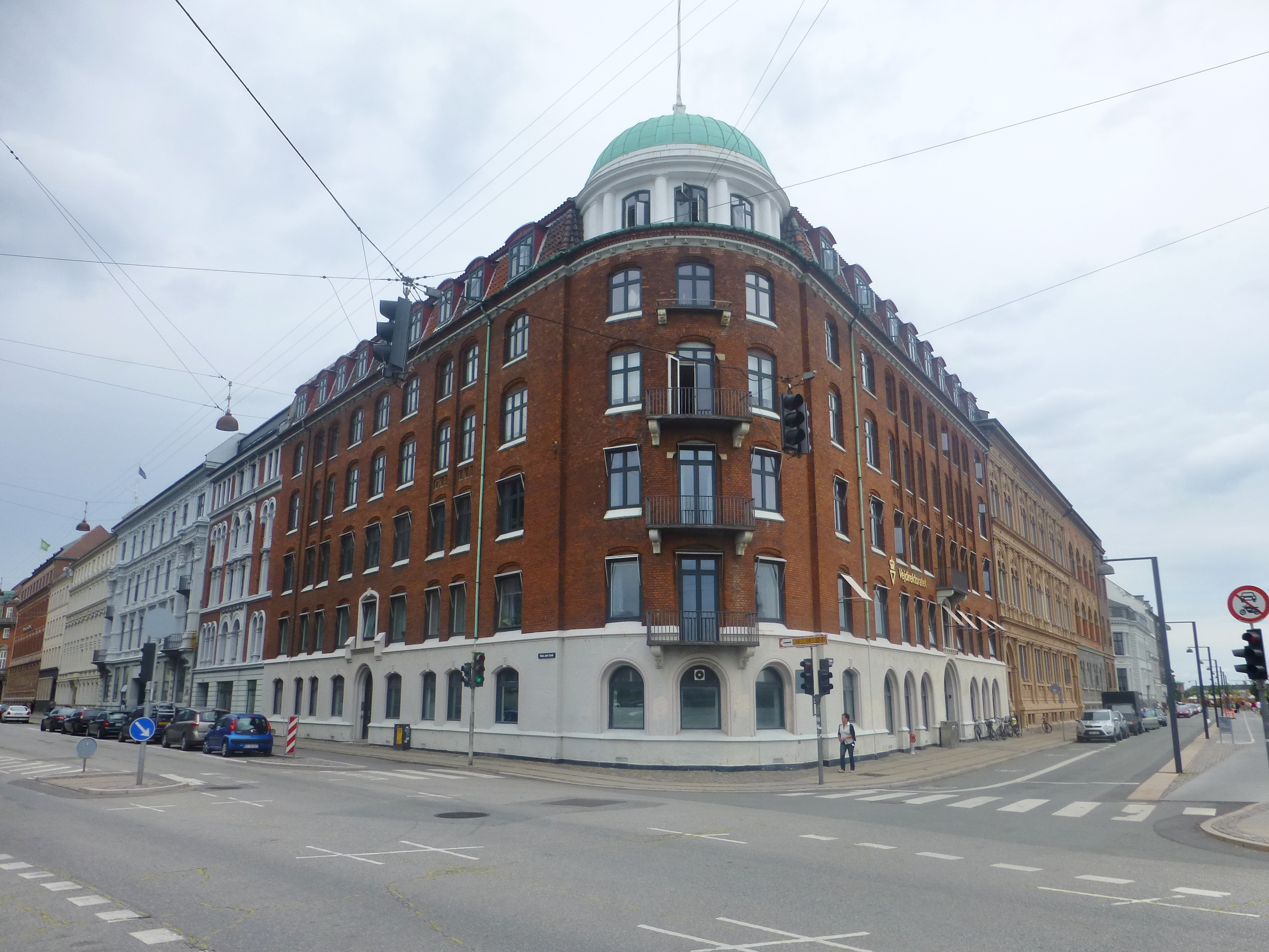 The goventment institution Vejdirektoratet at the corner of Niels Juels Gade and Havnegade in Copenhagen.